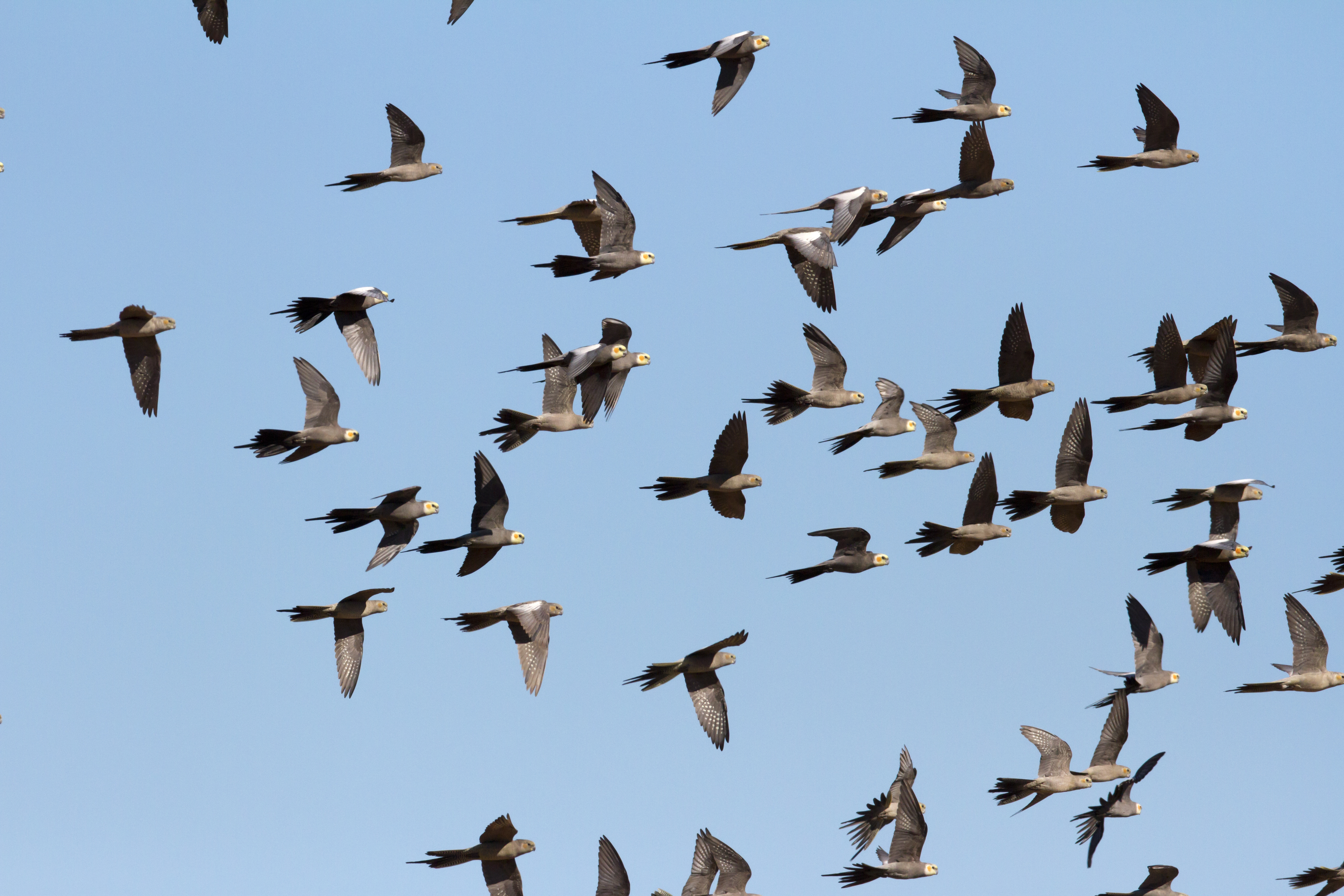 Cockatiel Nymphicus hollandicus flock, Karratha, Pilbara region, Western Australia.